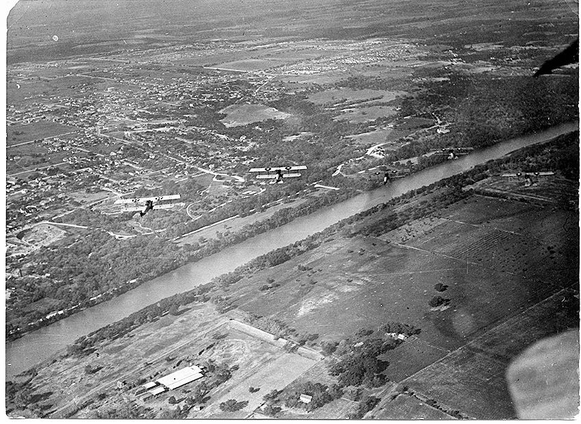 U.S. Army Air Corps Flyers from Rich Field over the Brazos River, Waco, Texas, 1918. This photograph was taken by an Army Air Corps aerial photographer whose squadron was stationed at Rich Field, Waco, Texas. It shows a formation of aircraft over the Brazos River and is one of the first aerial photos of Waco.